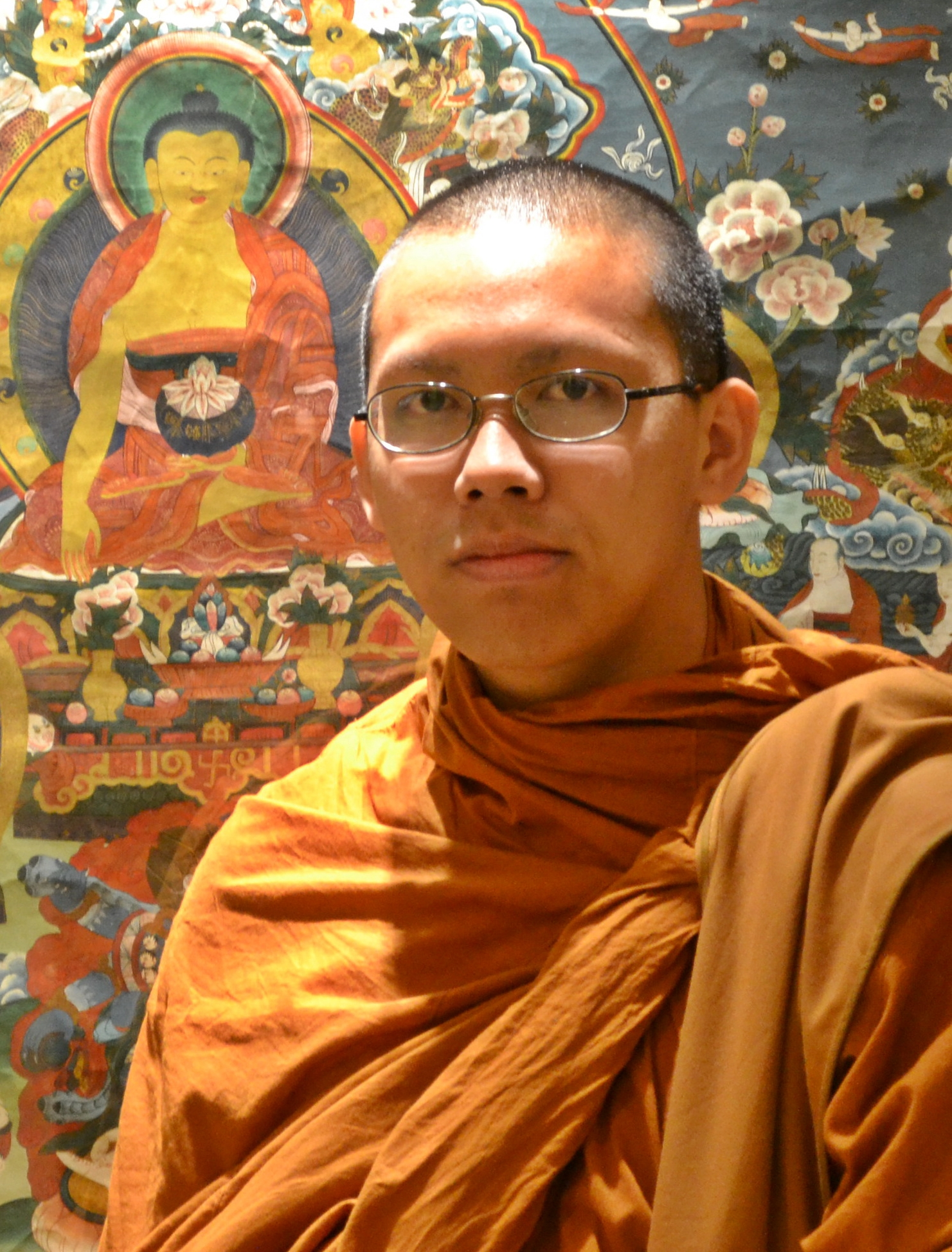 Theravada Buddhist monk Location: Kathmandu Nepal.